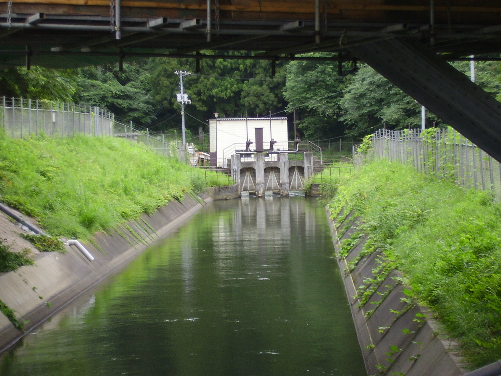 Aqueduct linking Hirose River North Weir and Sankyozawa Power Station grit chamber